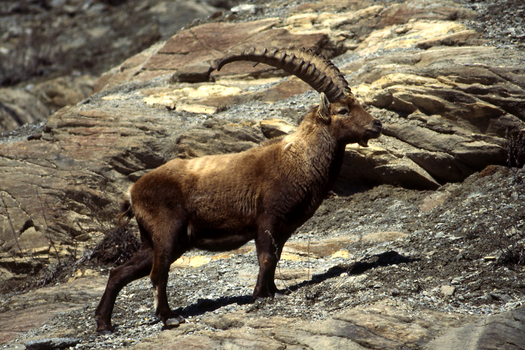 Male Alpine Ibex, Capra ibex, in Aosta Valley, Italy